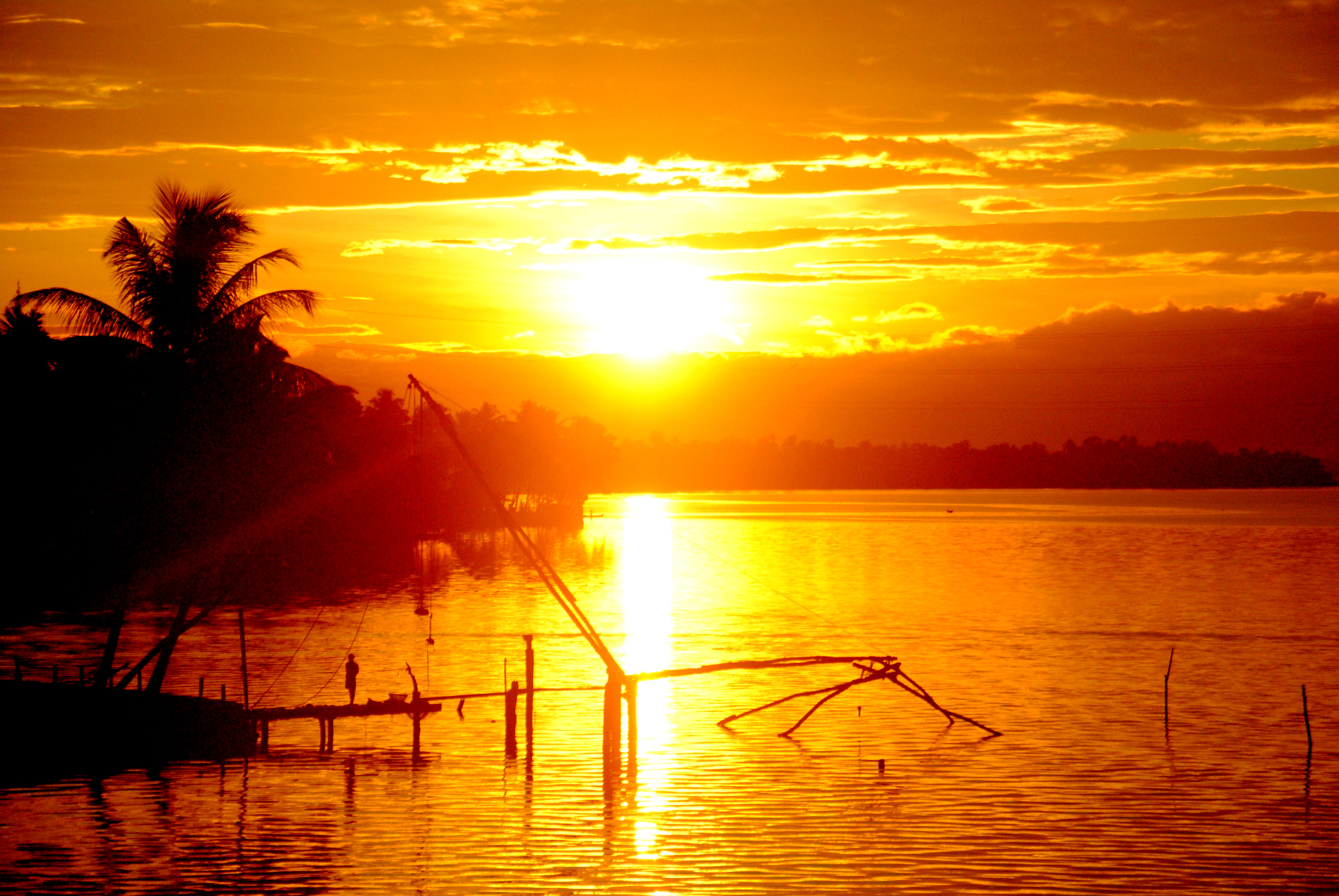 Sunrise Beauty of Nature, a view from Aroor-Kumbalam bridge